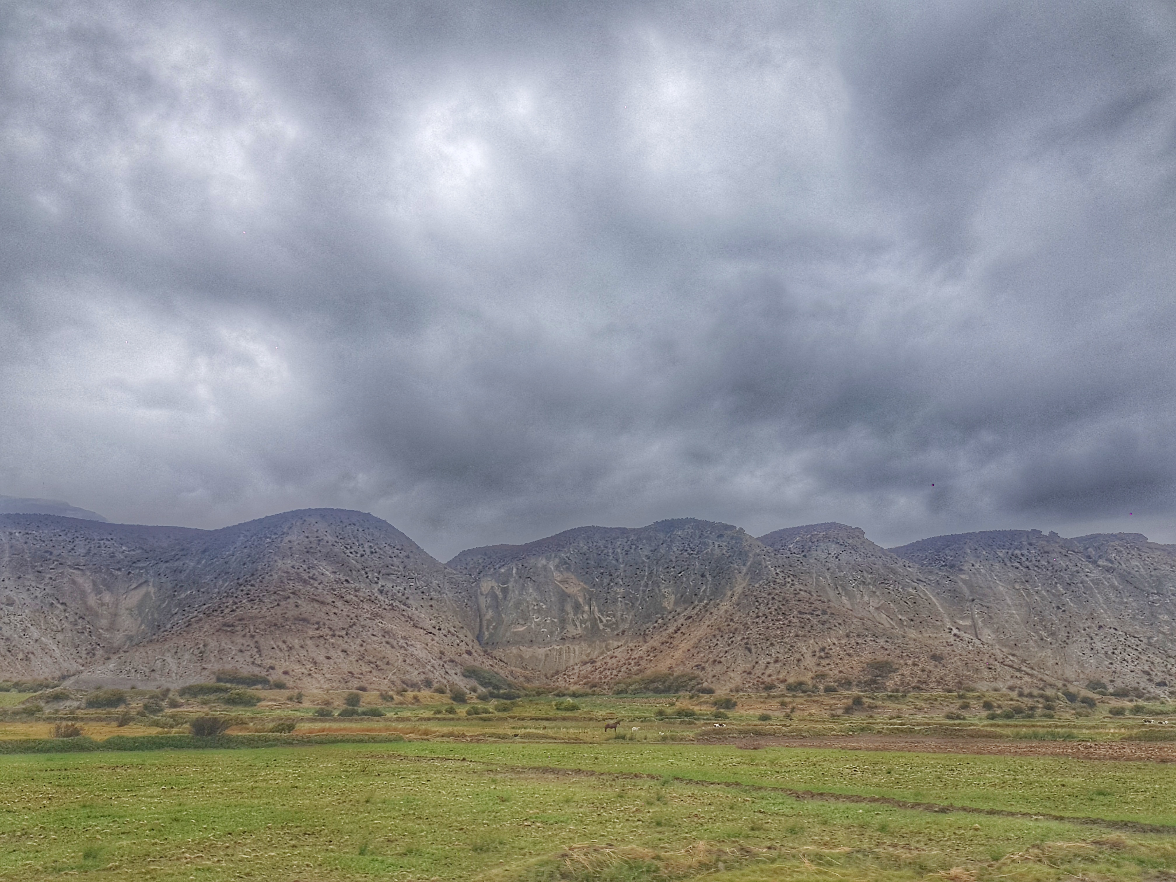 Predominant climate in the high Andean area of Tacna